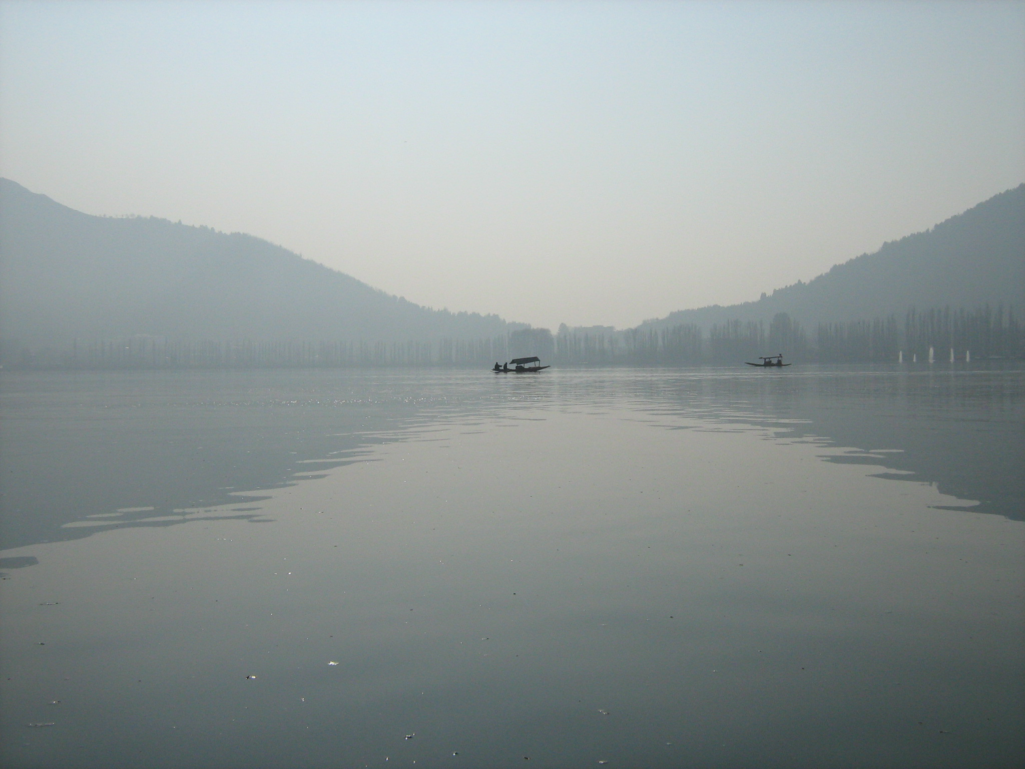 Dal Lake